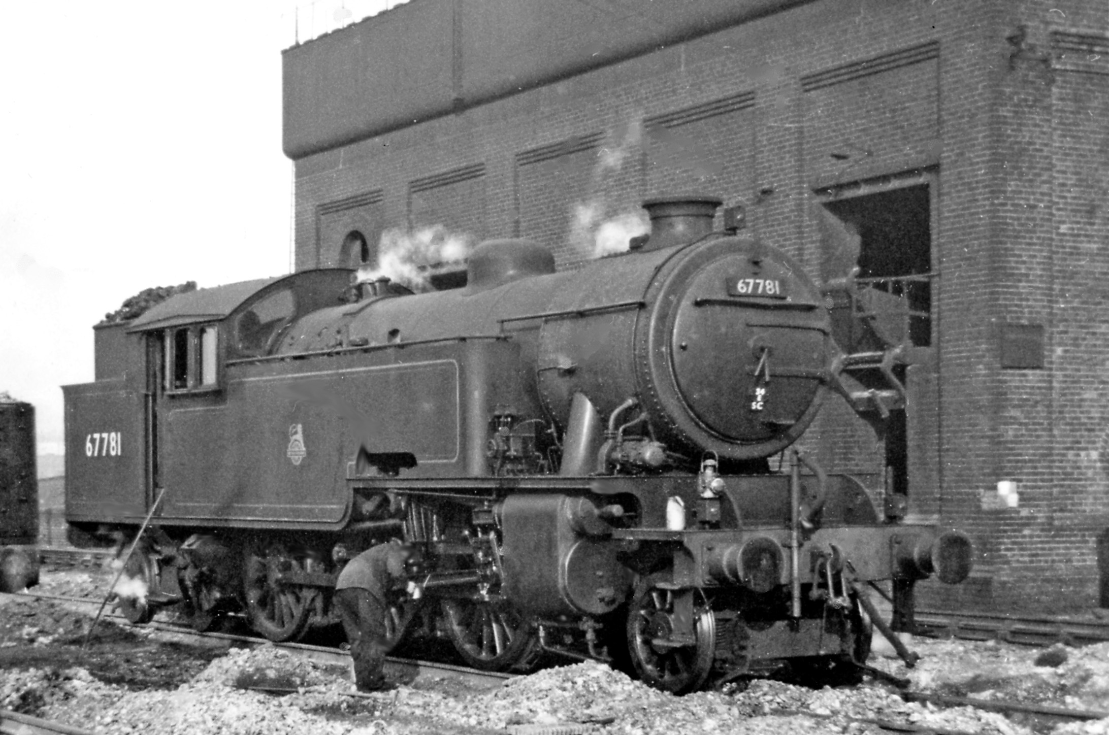 A Suburban tank engine at Neasden Shed, getting attention. View beside the coaling plant: No. 67781, one of the many Thompson L1 2-6-4T's devoted in the 1950's to the Marylebone - Princes Risborough/Aylesbury services prior to the introduction of Diesel multiple-units. Note the electric lighting fitted and the Stone's steam-worked generator attached to the smokebox on the right-hand side. (See also TQ2184 : An L1 2-6-4T leaving Neasden Locomotive Depot).